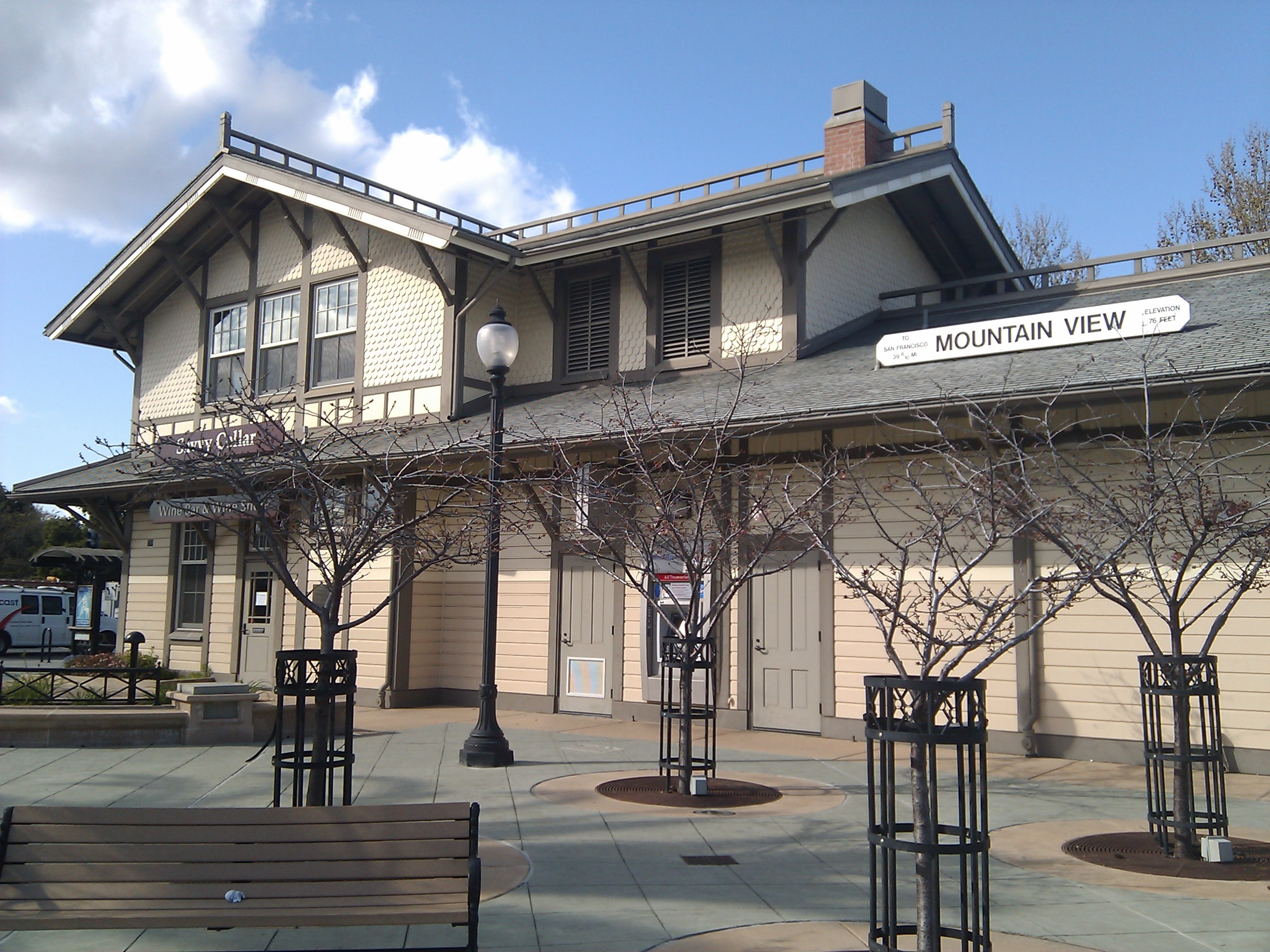 Train Station, Mountain View, California, U.S.A., 2010